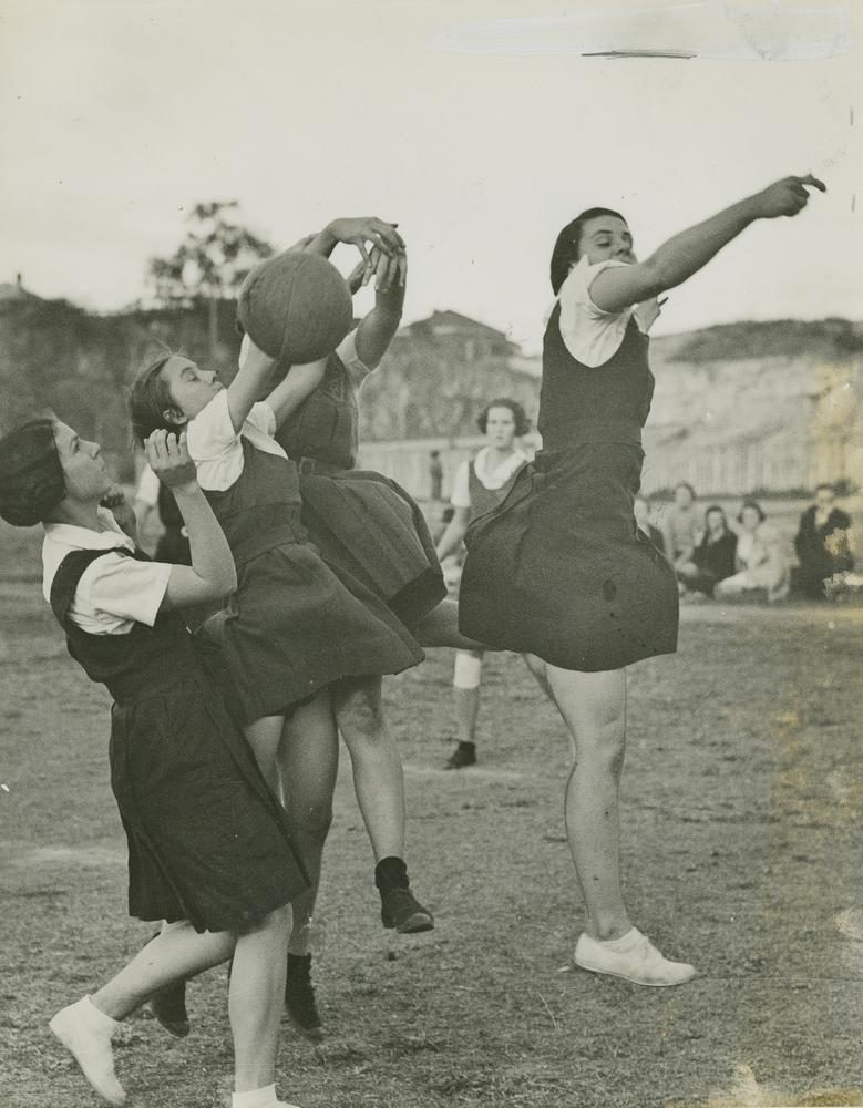 Netball players in action on the court, Spring Hill, Brisbane Two Rockhampton basketball players attempt to intercept a pass to Sybil Rice, playng for Ipswich, in the match Rockhampton vs. Ipswich at Spring Hill playground. (Description supplied with photograph).